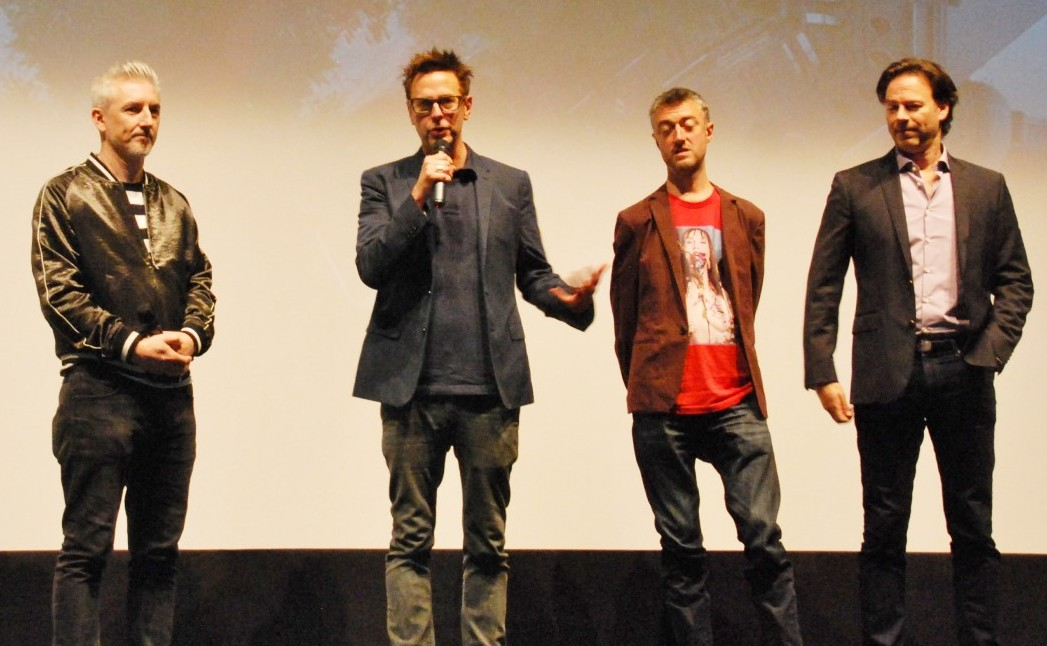 Saturday, September 10, 2016 at the Ryerson Theatre in Toronto, Canada